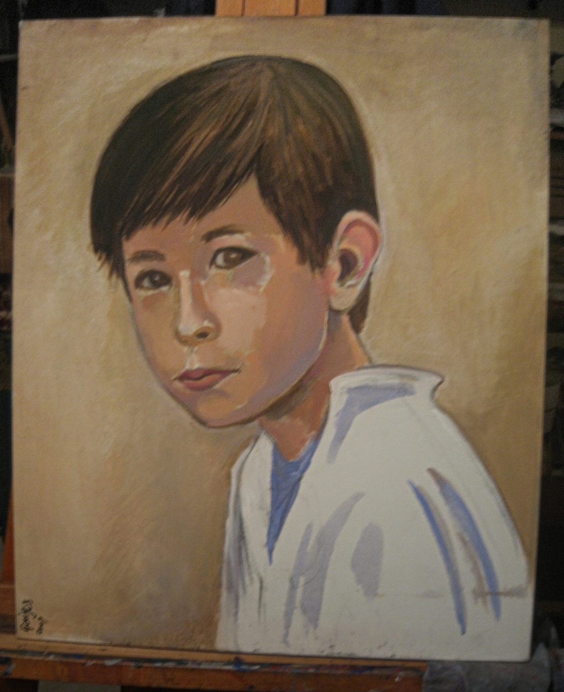 Watercolor painting „Metin“ by Gorigus, 2005